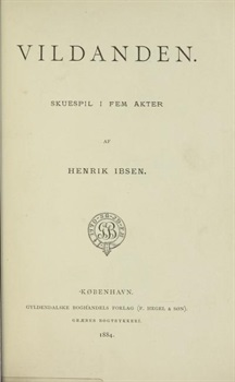 Title page 1884 first edition The Wild Duck by Henrik Ibsen